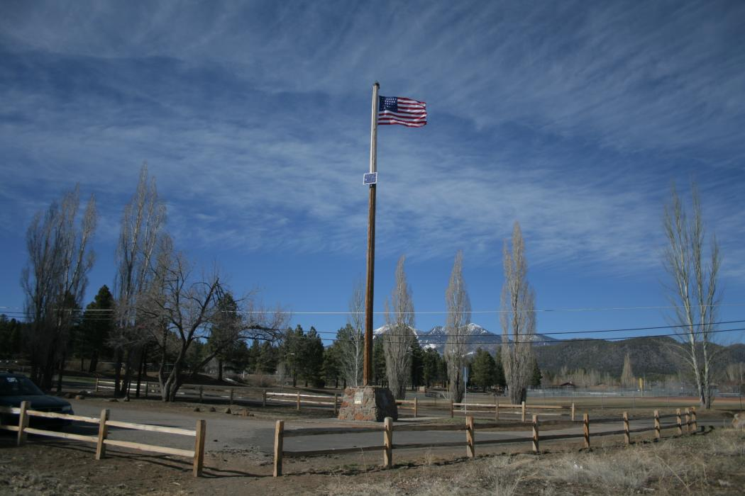 The "flag staff" in Flagstaff Arizona which is the reason how and why the city got it's name in the mid 1800's.